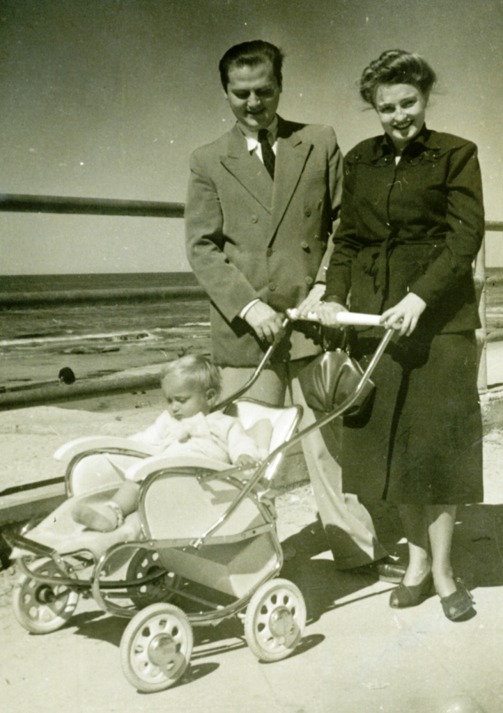 A pair of immigrants, and a child, Immigration to Israel